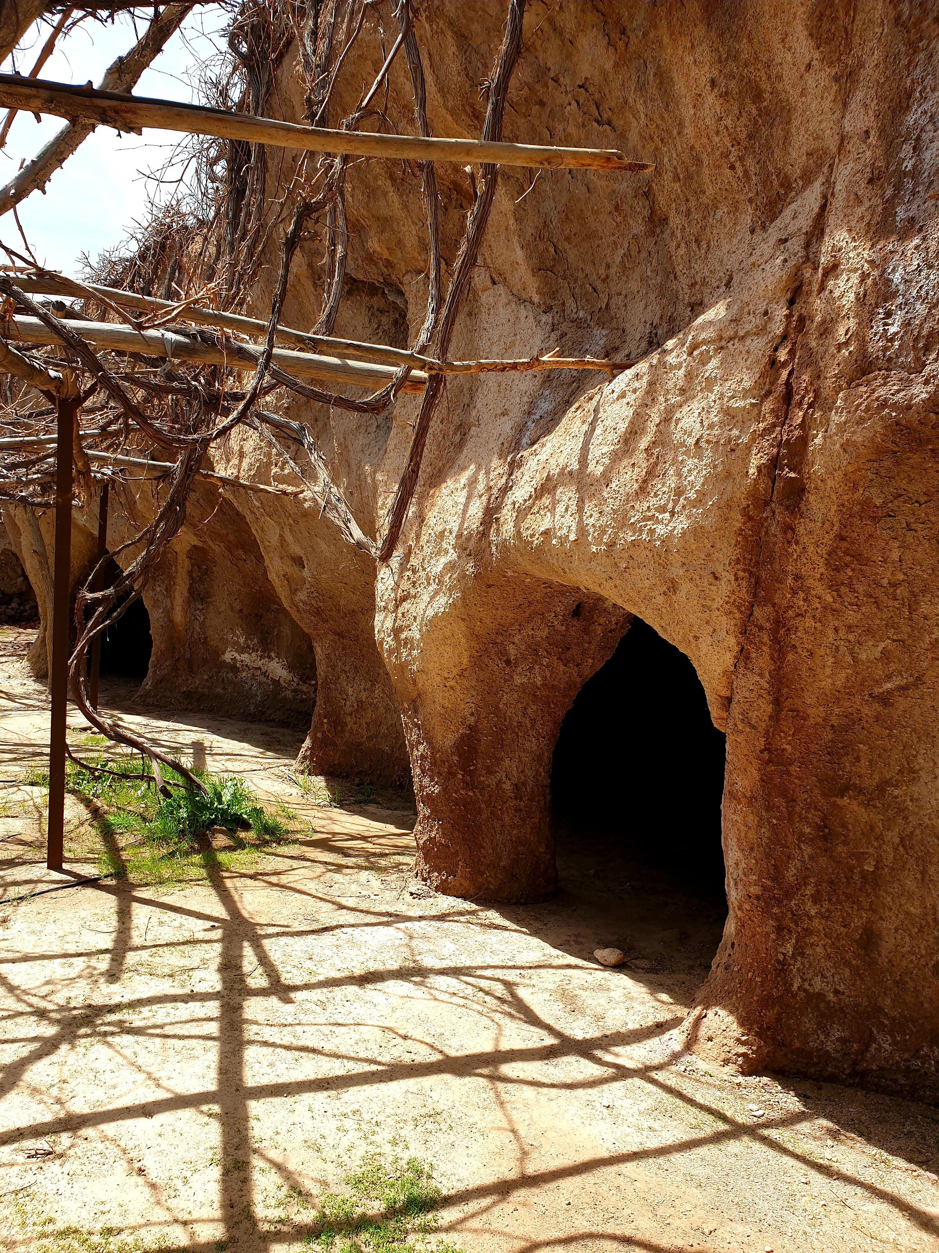 Tamin rocky architecture in Mirjaveh Iran